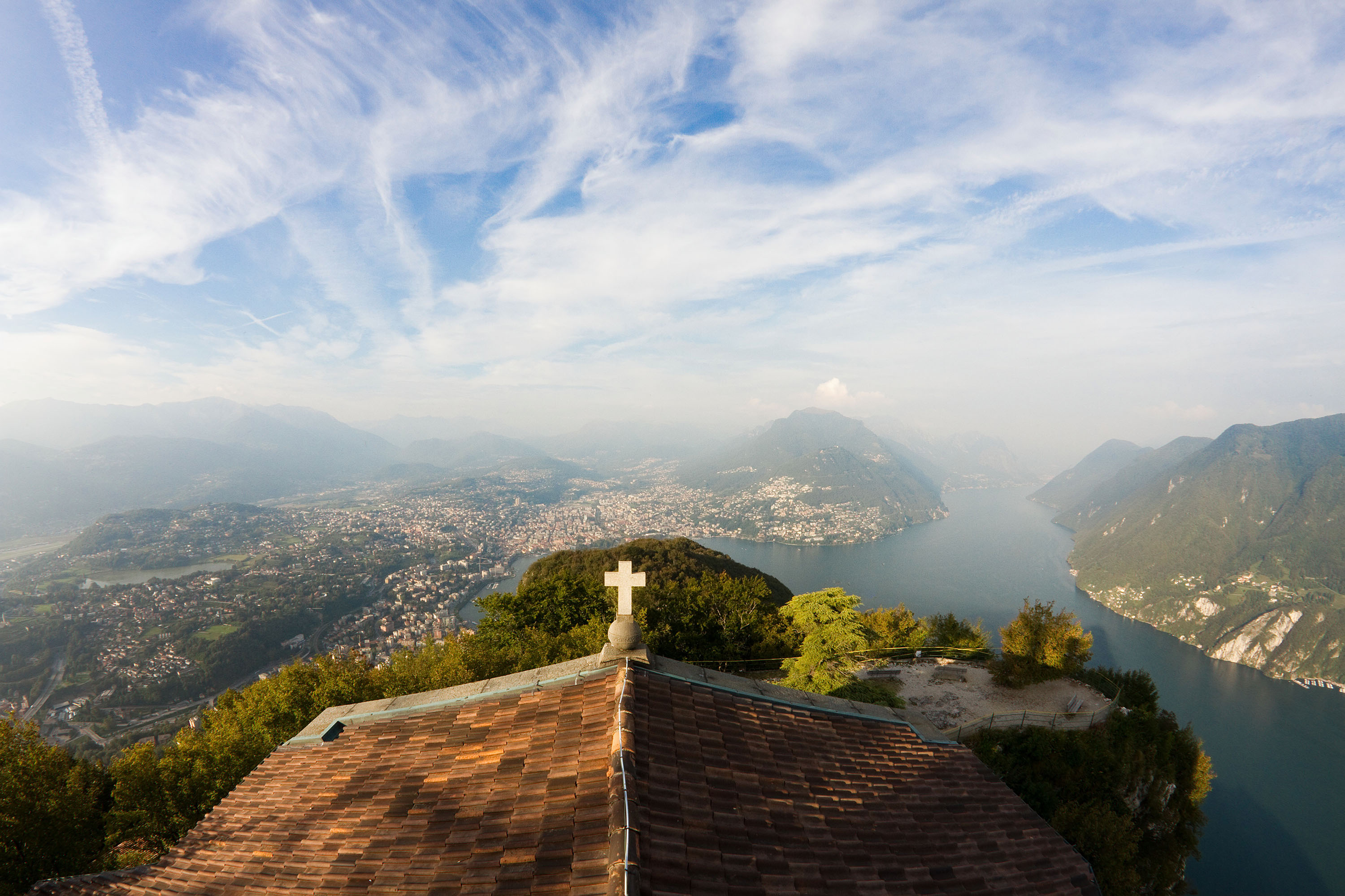 View of the City of Lugano and its surroundings from the top of Monte San Salvatore. On the foreground: the church of San Salvatore, built at the top of the mountain of the same name.